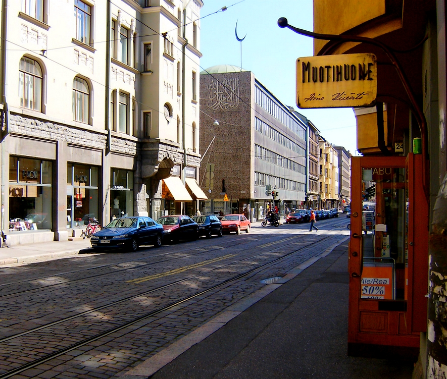 The street Fredrikinkatu, Helsinki, Finland, a view to south-east towards the crossing of the street Uudenmaankatu